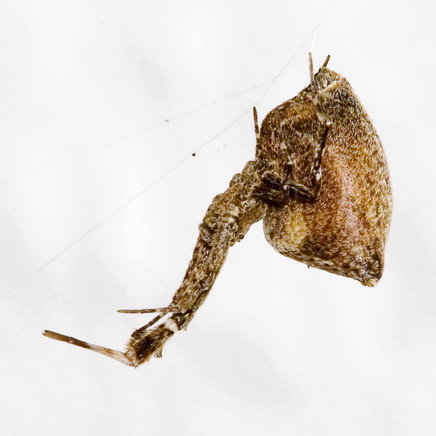 Uloborus.plumibes